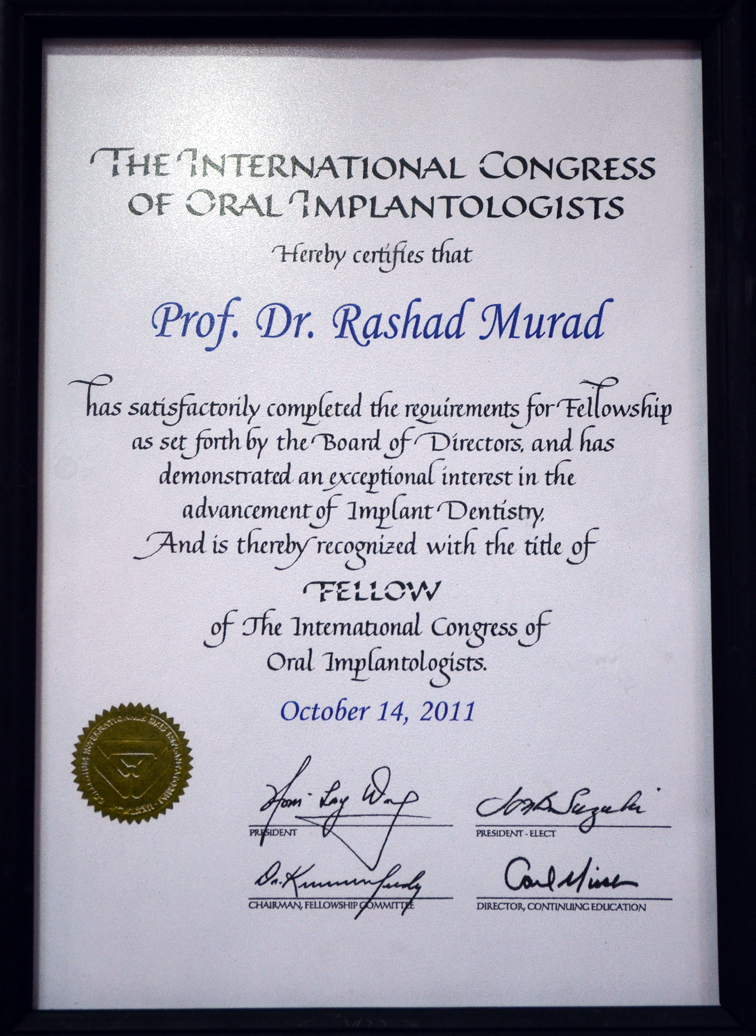 Member of AACD